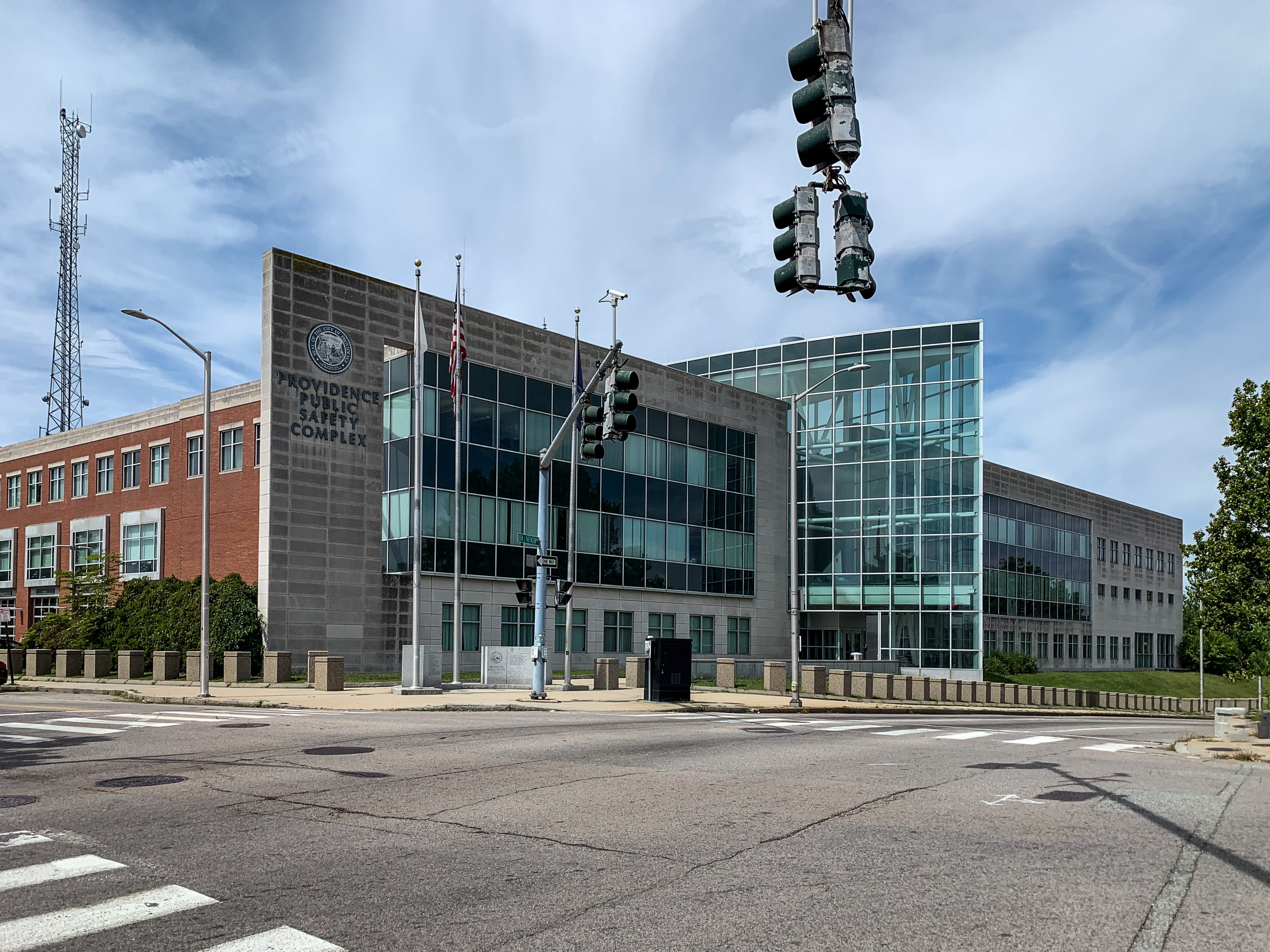 Providence Public Safety Complex. Dedicated in April 2002. Lead architect: Jung/Brannen Associates, Inc.